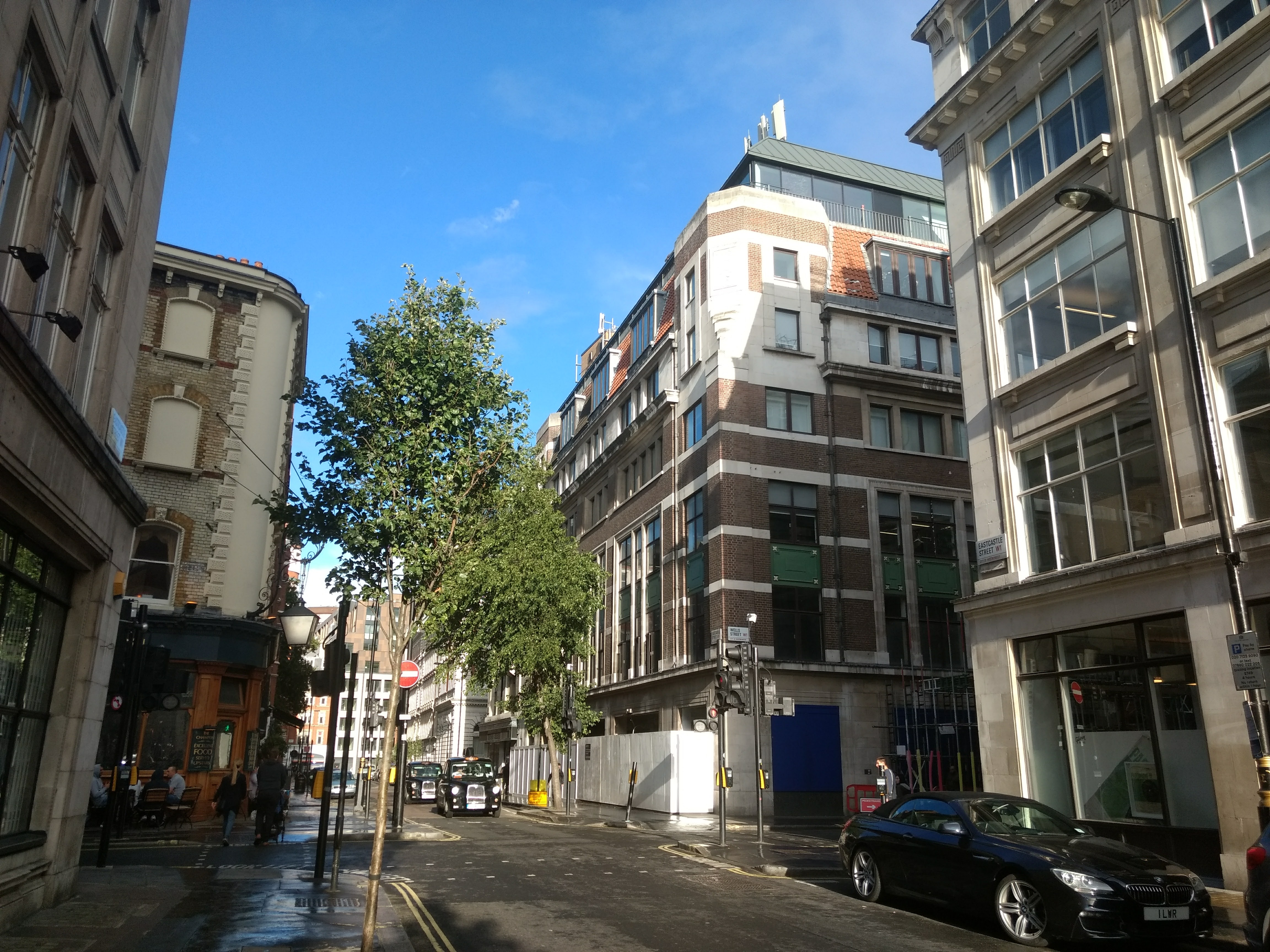 London